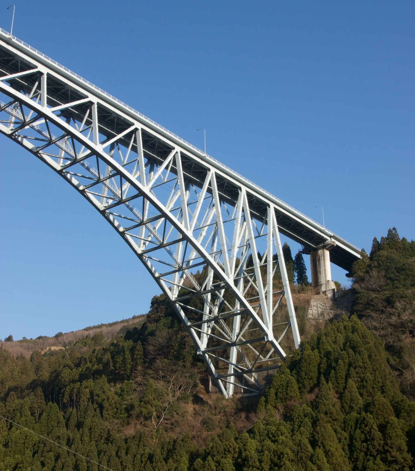 Seiun Bridge in Miyazaki prefecture, Japan